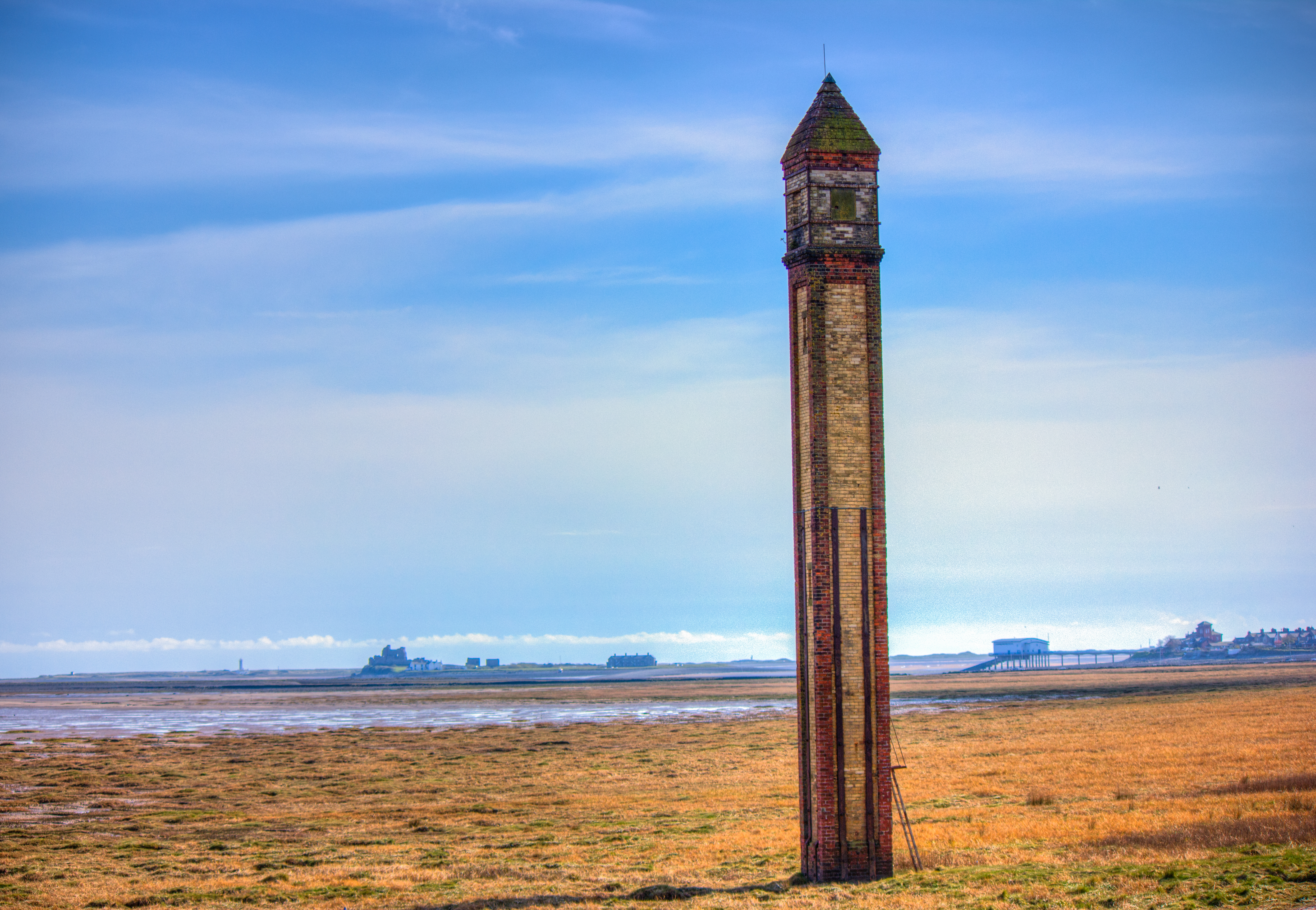 A photo of the 19th century lighthouse commonly known as "The Needle" in Rampside, UK